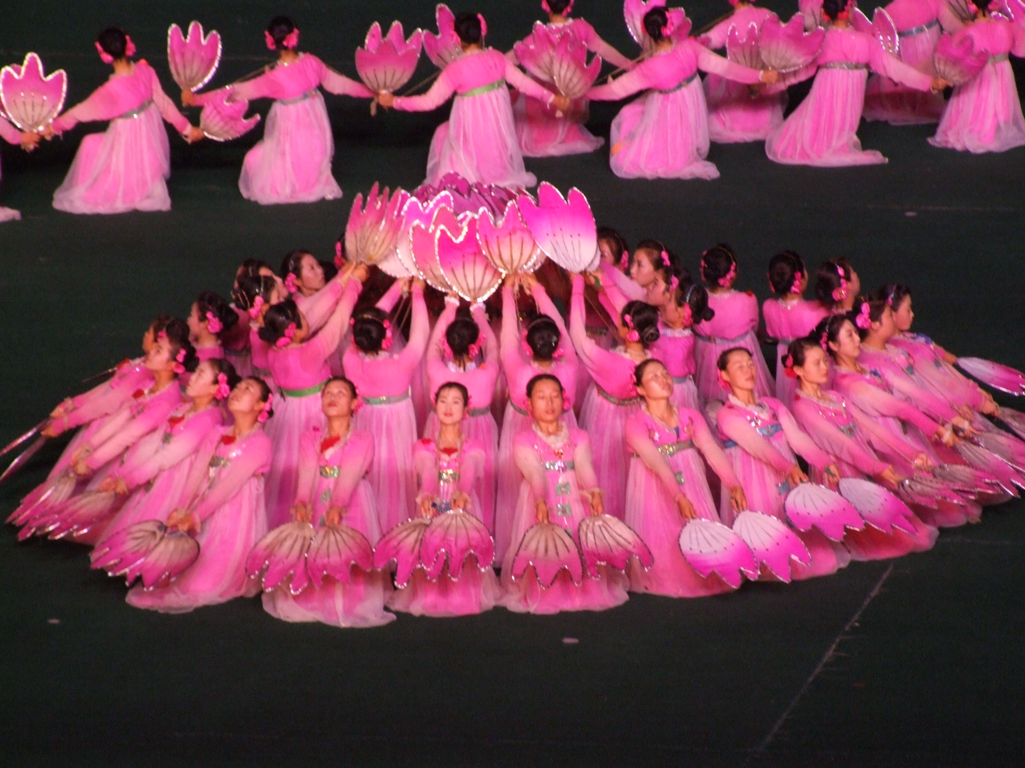 Arirang Mass Games